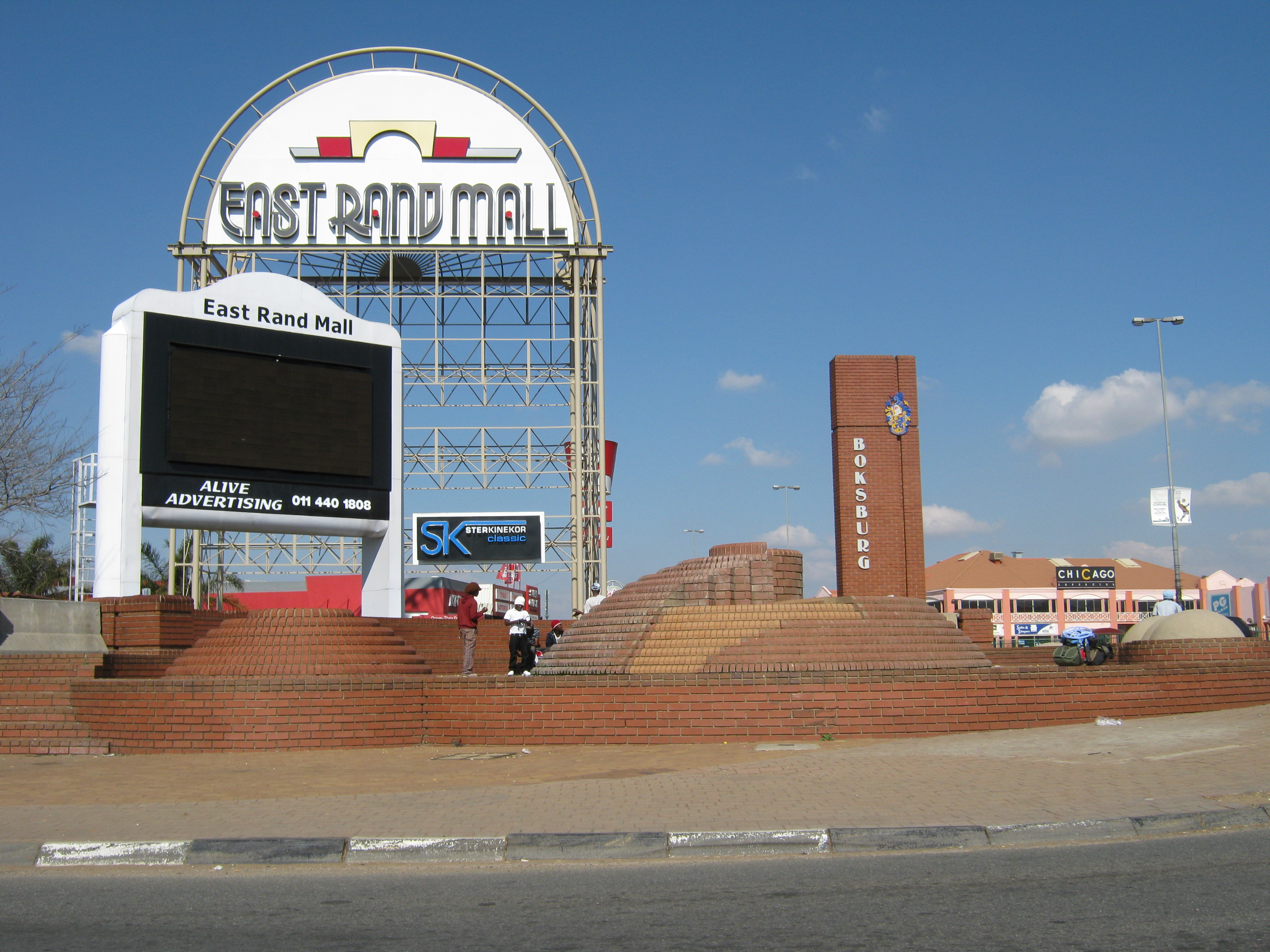 The entrance sign in Boksburg by the East Rand Mall